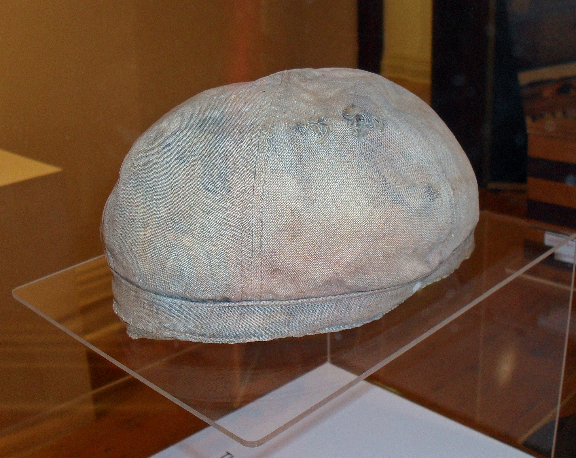 Japanese POW cap which was collected by Normand and Hazel Preston after the cap blew off a Japanese POW who were being transported by truck back to the Cowra POW camp after the breakout at the POW camp on 5 August 1944. The cap's colour was originally maroon however after the propaganda during the war about the Japanese and unsure at how safe the cap would be if touched, the Normand used s stick to collect the cap and placed in the back of the car and Hazel boiled the cap in the copper until all of the maroon colour was gone. The cap is the only known clothing relic of the Cowra POW camp breakout in Australia